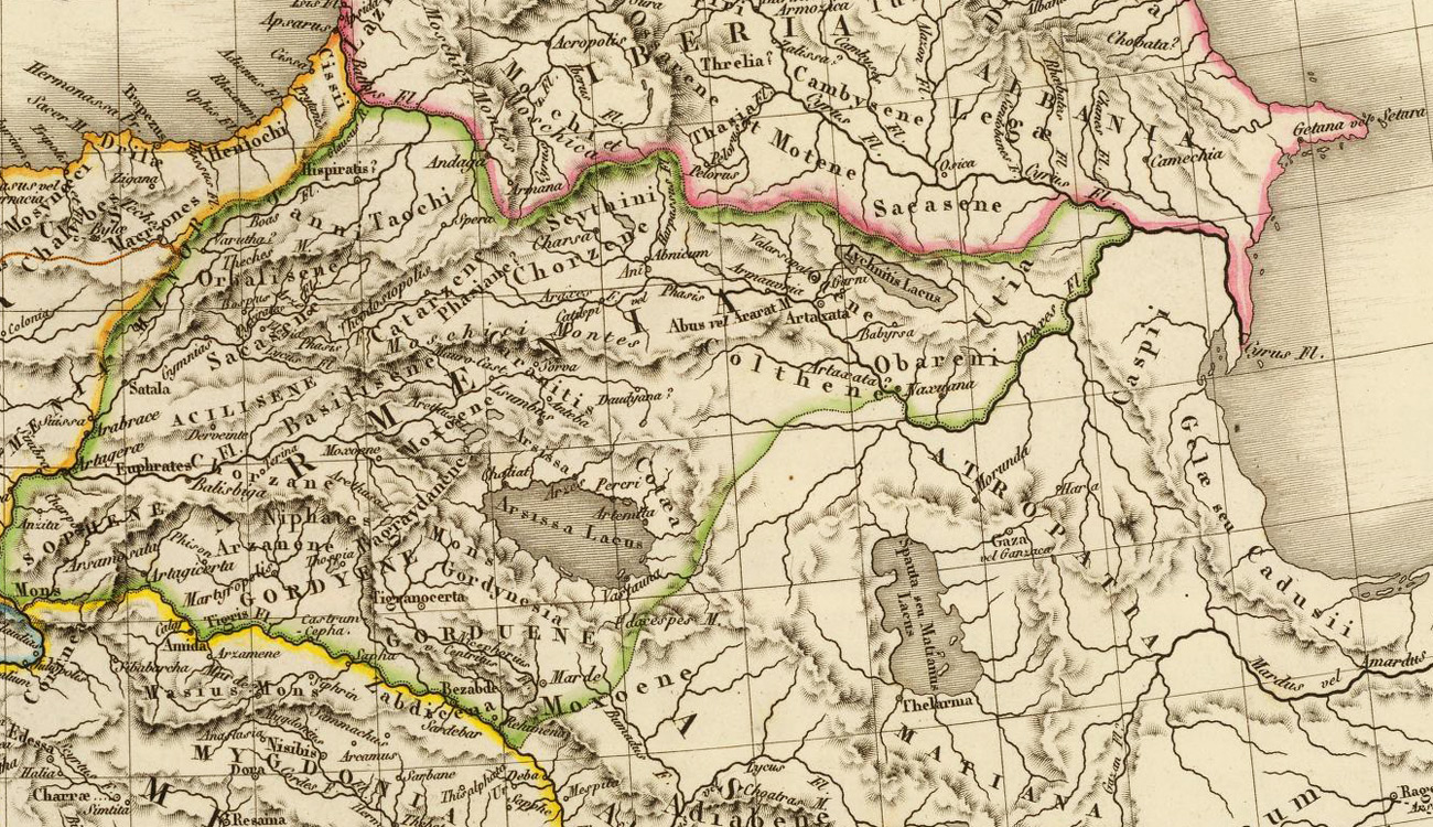 This is an intersection of the original map: Carte generale de l'Asie-Mineure, de l'Armenie, de la Syrie, de la Mesopotamie, du Caucase &a. par A.H. Brue, Geographe de S.A.R. Monsieur. A Paris, Chez l'Auteur, rue des Macons-Sorbonne, no. 9, et chez les principaux marchands de geographie. Mars 1822.